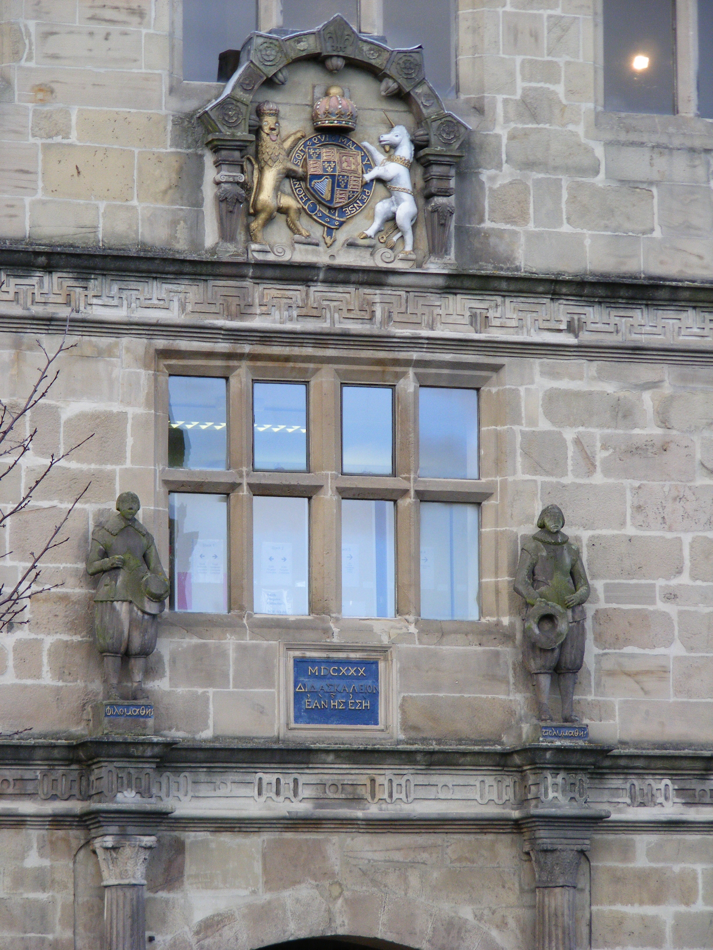 Entrance to the Public Library, Shrewsbury. The Greek inscriptions under the statues over the archway convey the message that "Love of learning" brings the fruit of "Much learning".